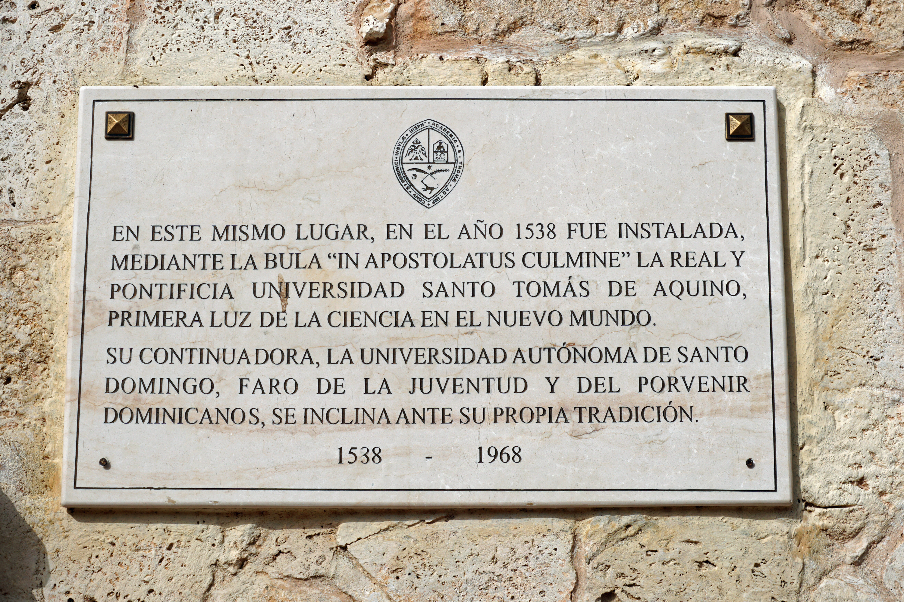 Plaque about the first university in the Americas at Dominican Order Church, Ciudad Colonial, Santo Domingo, Dominican Republic.